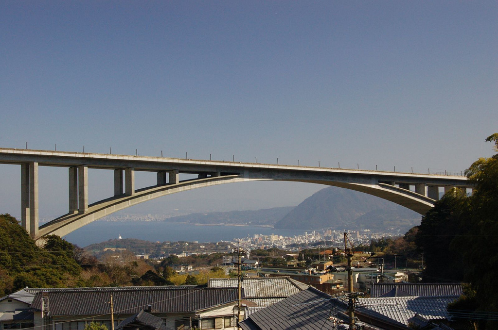 Beppu Myoban bridge, Beppu (Ōita), Japan